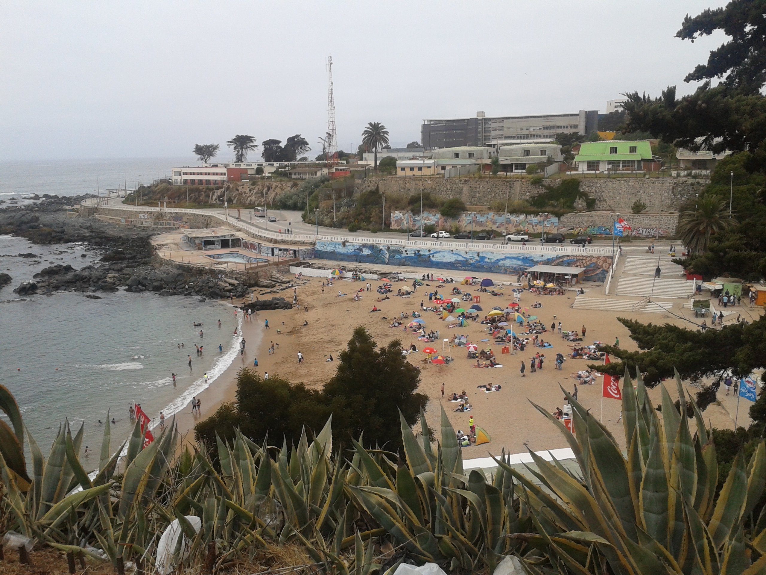 Playa las torpederas de Valparaíso, Chile